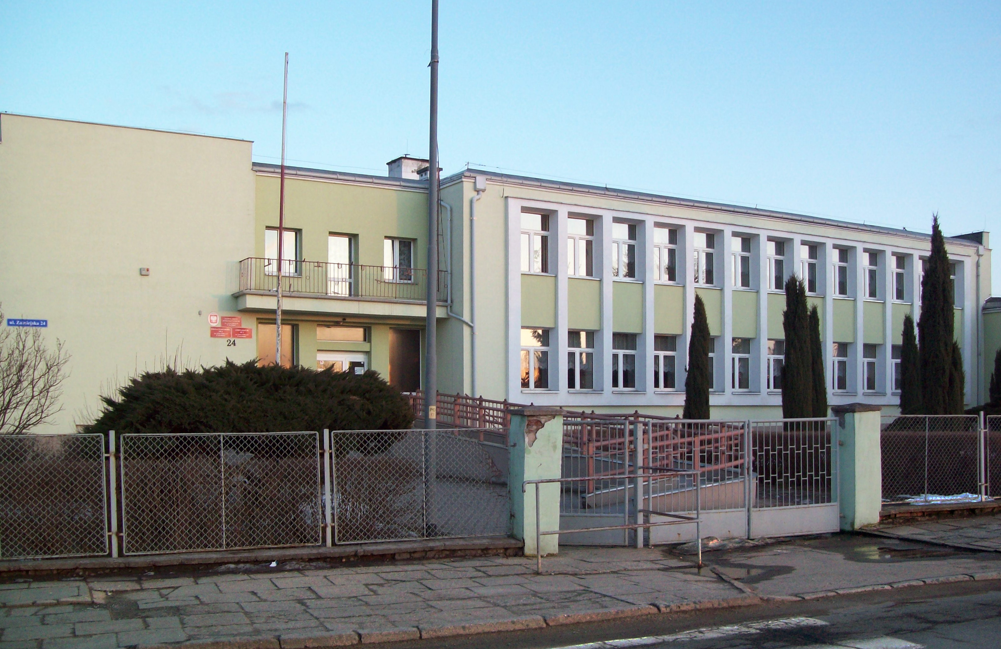 School Integration Team name John Paul II in Kłodzko